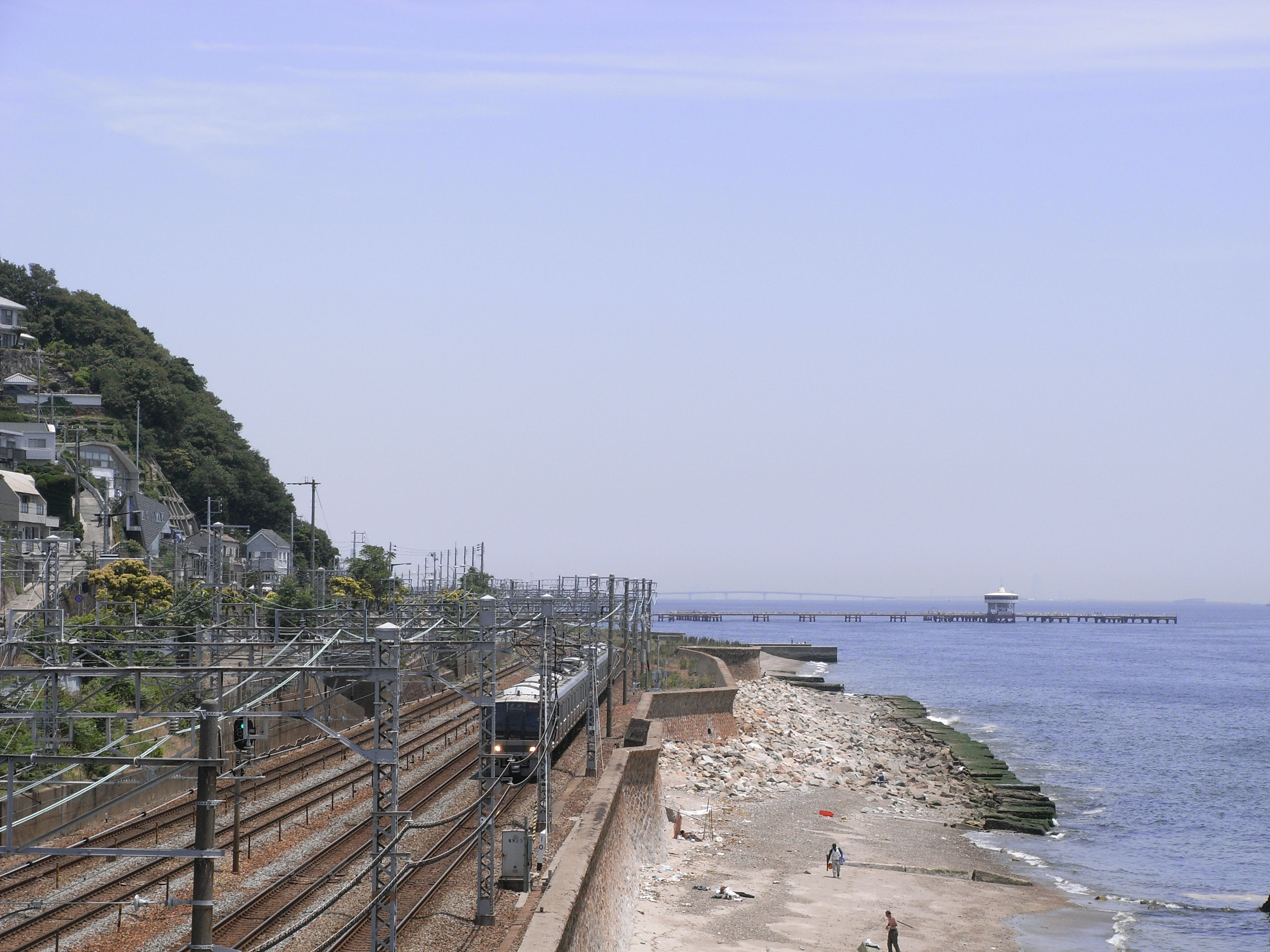 JR Kobe Line between Suma and Shioya